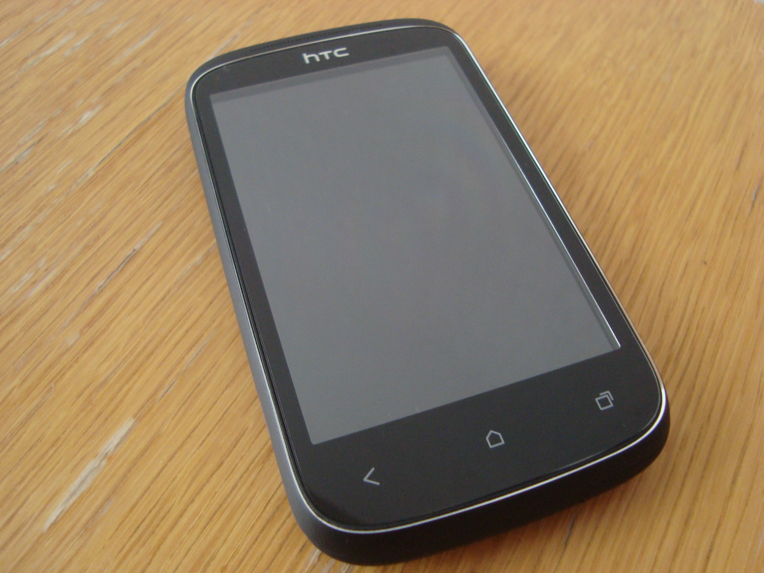 Smartphone HTC Desire C